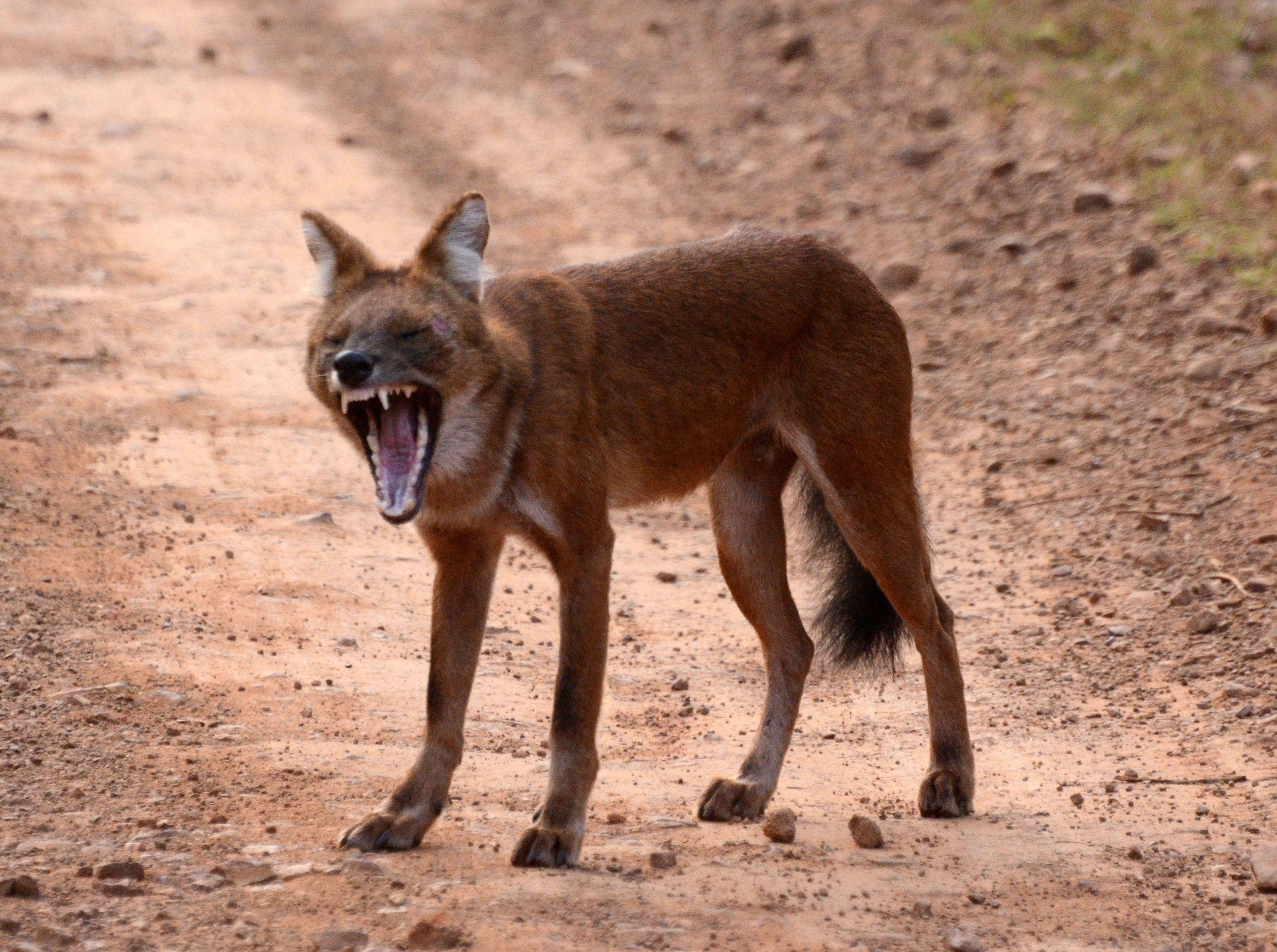 Indian Wild Dog (Dhole) at Tadoba Andhari Tiger Reserve, India